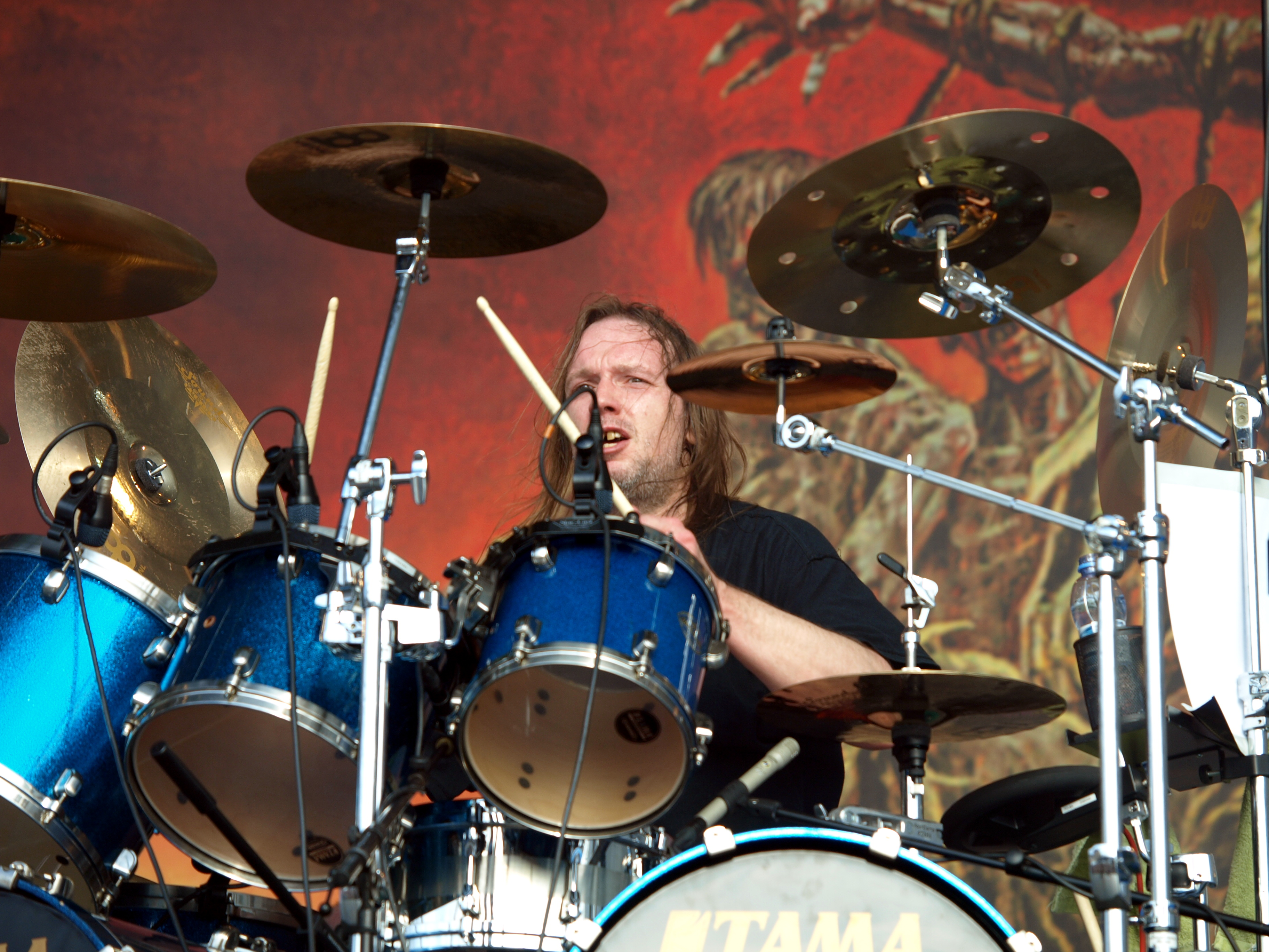 German thrash metal band Kreator live at Tuska Open Air 2013